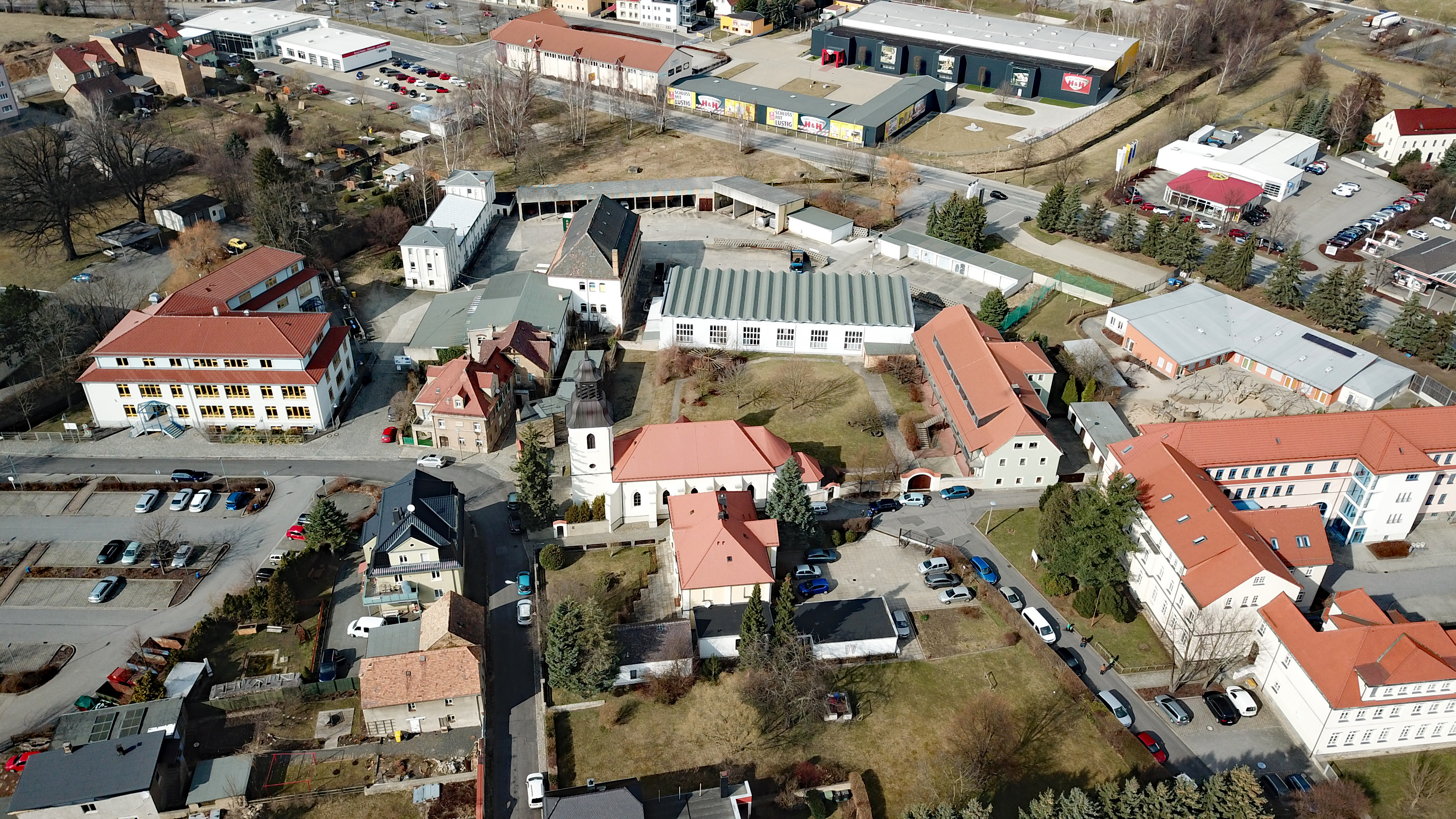 Kamenz (Saxony, Germany) (former village Spittel and church St. Maria Magdalena)